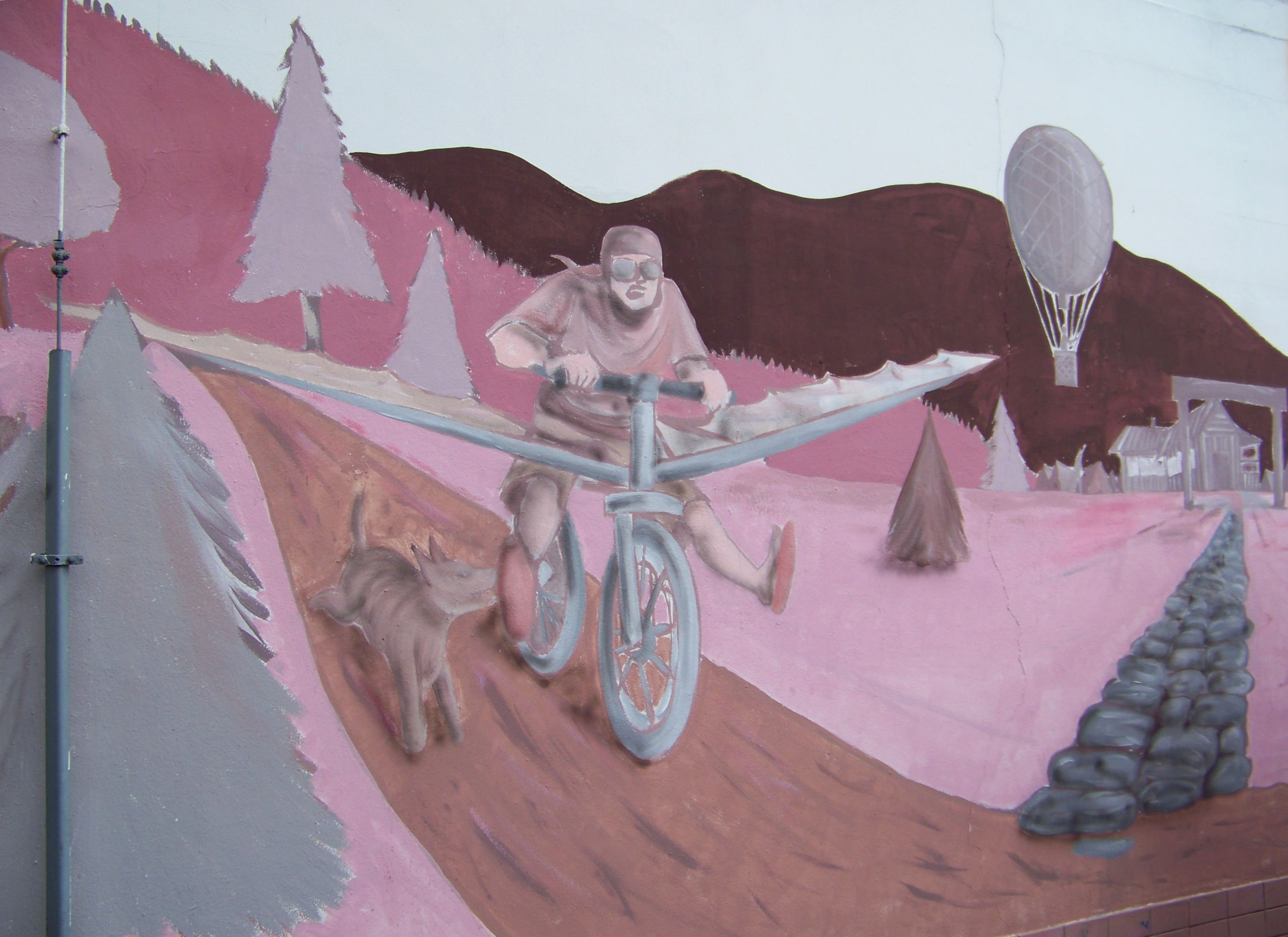 Prague-Hostivař, the Czech Republic. Hornoměcholupská Housing Estate, Plk. Mráze street, Taškent shopping centre, outside murals.